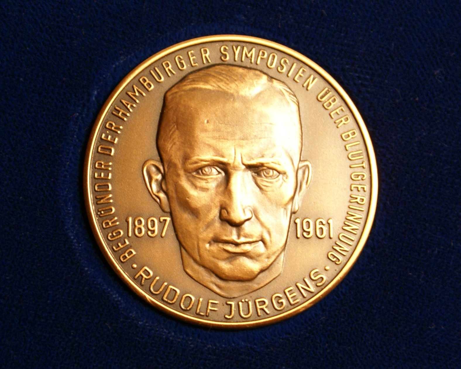 Rudolf Jürgens Gedenkmedaille 1967